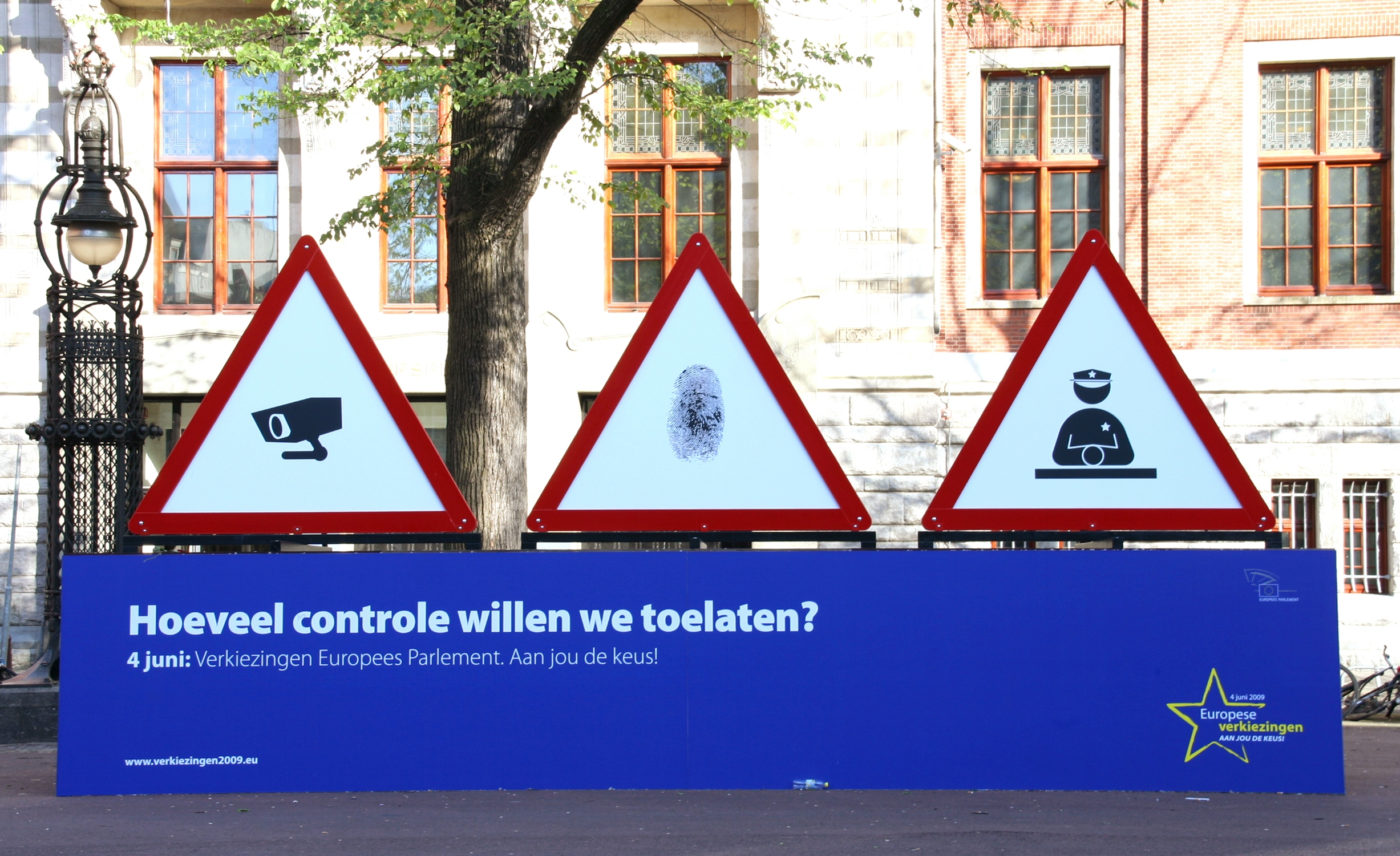 Poster for the European Parliament Elections